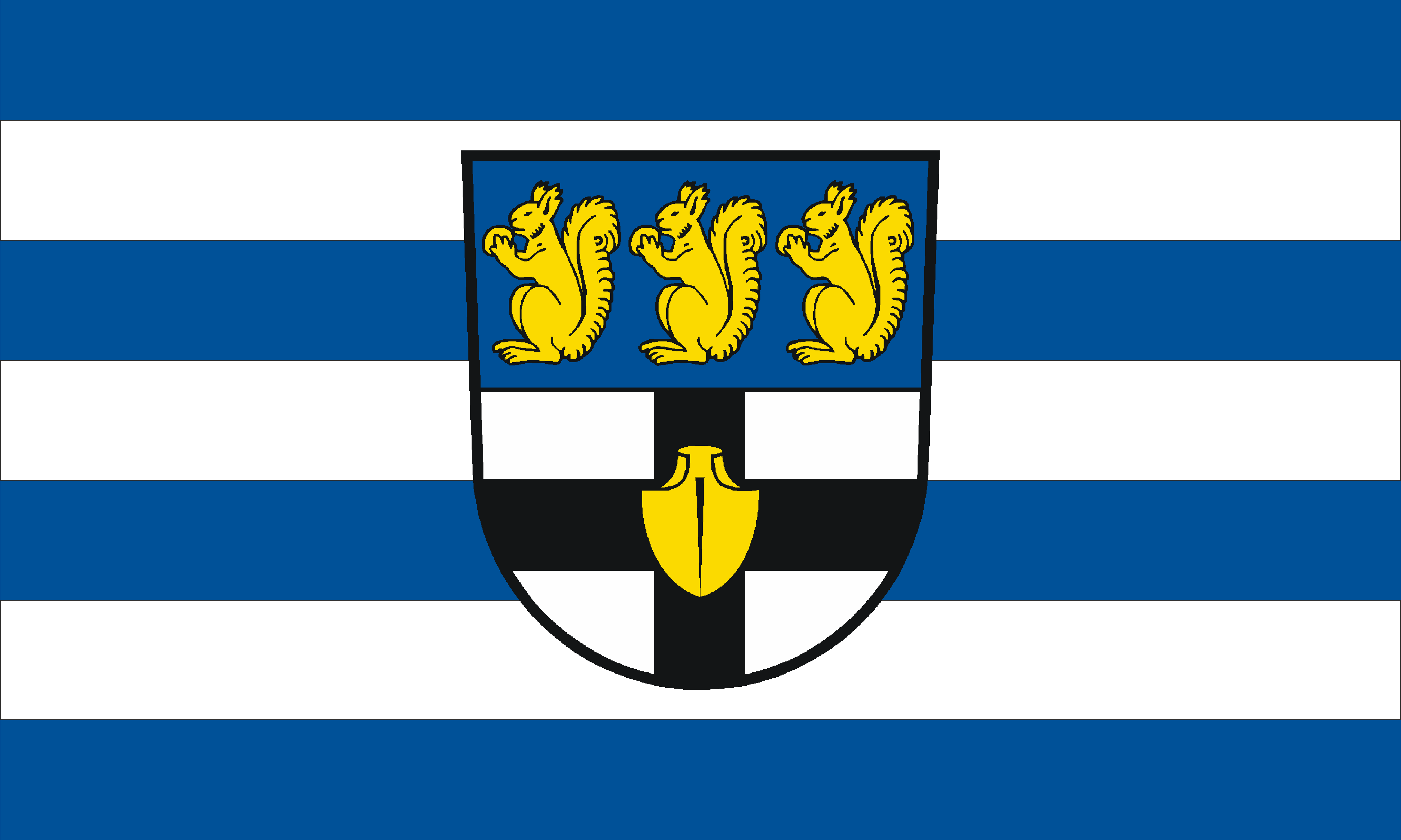 Flag of Neuenkirchen